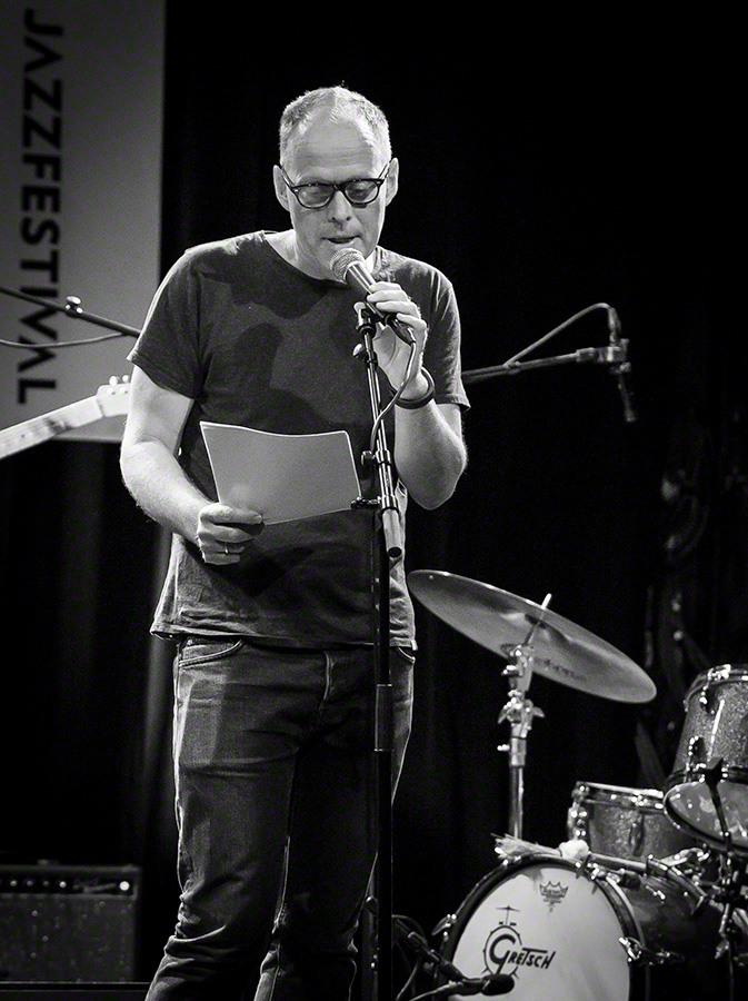 Geir Gulliksen performs with Ferdigsnakka: Broen og Moskus at the stage of Nasjonal Jazzscene Victoria. The concert was part of the Oslo Jazz Festival in Norway and took place on 15. August 2016. Lineup:Anja Lauvdal (keyboard)Fredrik Luhr Dietrichson (double bass)Hans Hulbækmo (drums)Heida Karine Johannesdottir (tuba)Lars Ove Fossheim (guitar)Lars Saabye Christensen (spoken words)Kjartan Fløgstad (spoken words)Vigdis Hjorth (spoken words)Geir Gulliksen (spoken words)Ingvild Schade (spoken words)